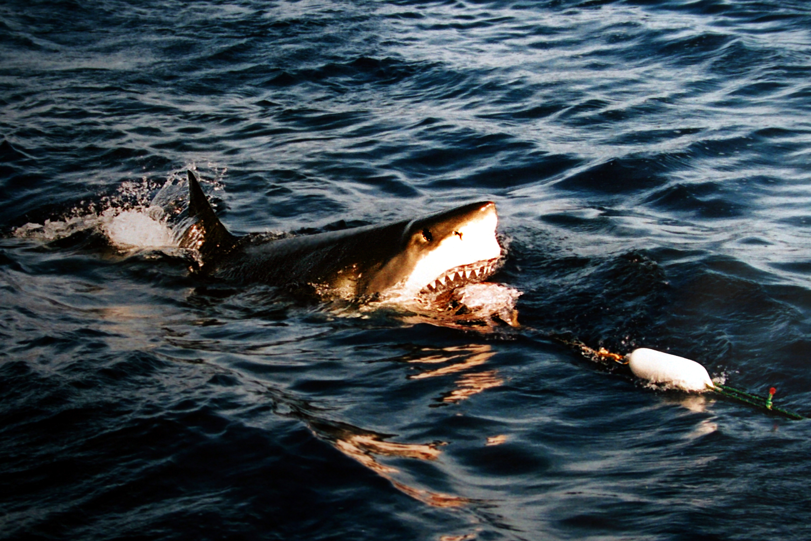 A great white shark at Isla Guadalupe, Mexico. Please note, we did not try to catch a shark. We did try to bring sharks closer to the cages. No shark was hurt. The picture is a digital copy of my old film picture.